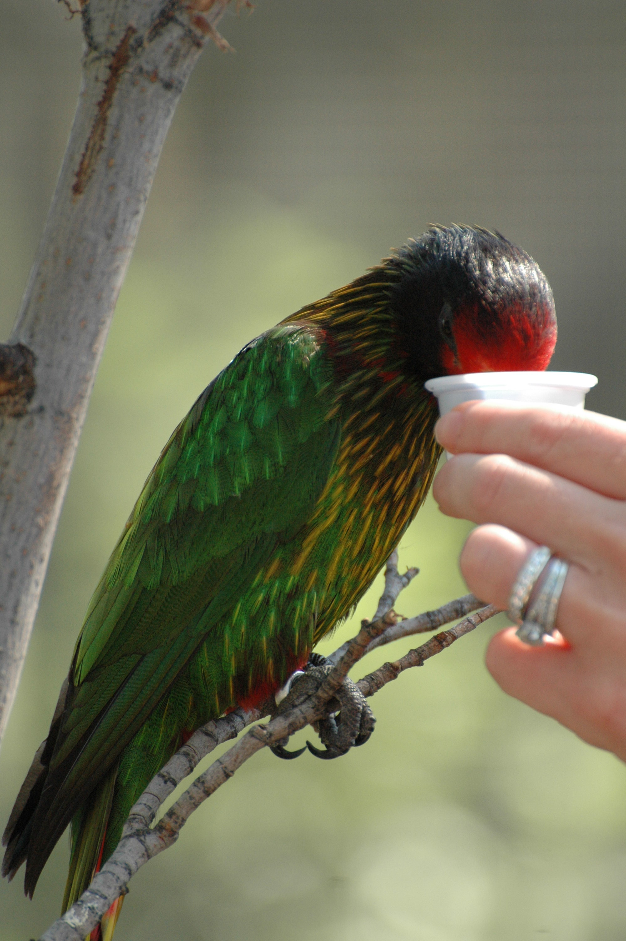 Yellow-streaked Lory (Chalcopsitta sintillata) at the Buffalo Zoo.